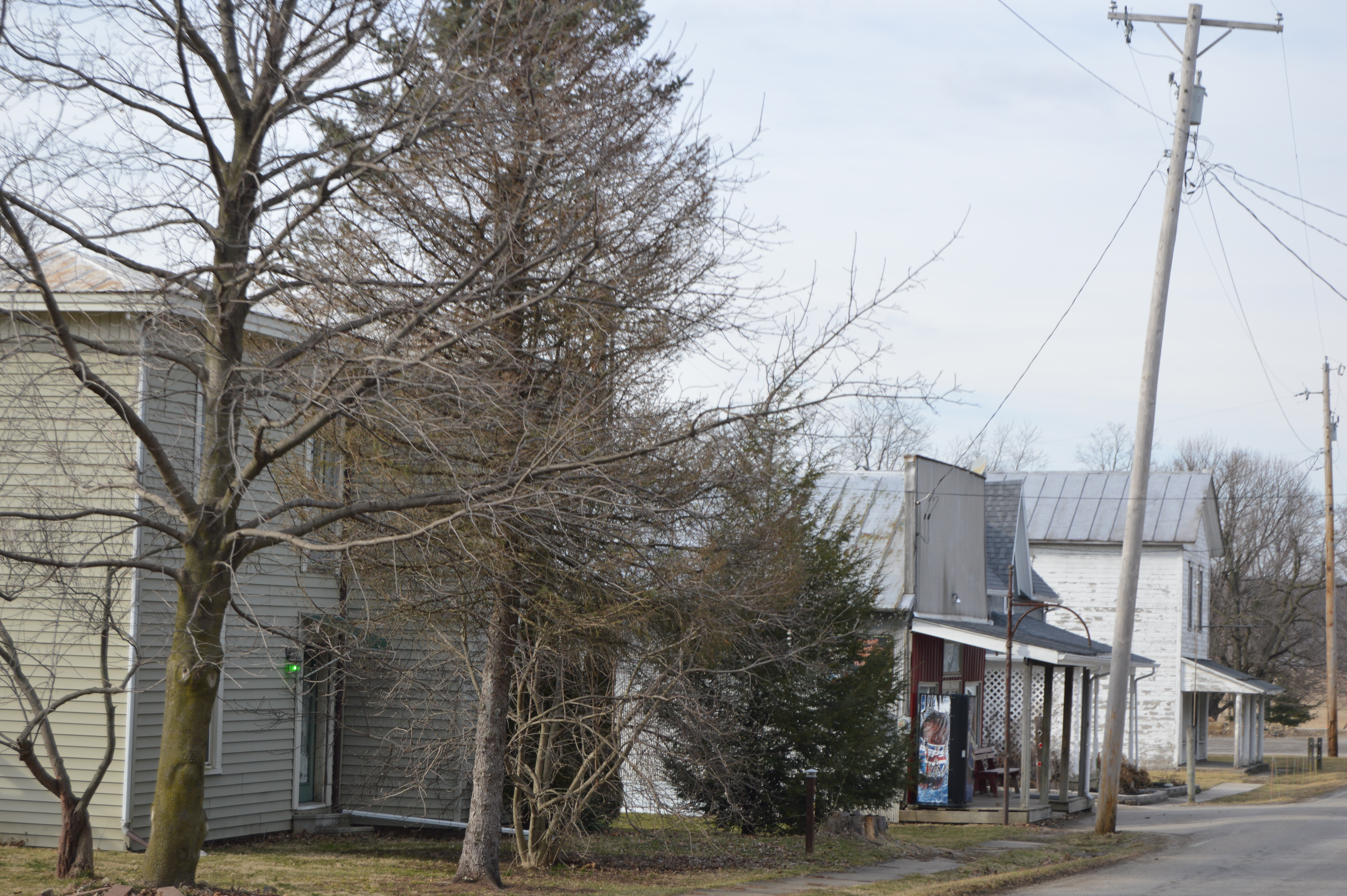 Buildings on the western side of Stevenson Road at Mingo in Wayne Township, Champaign County, Ohio, United States.